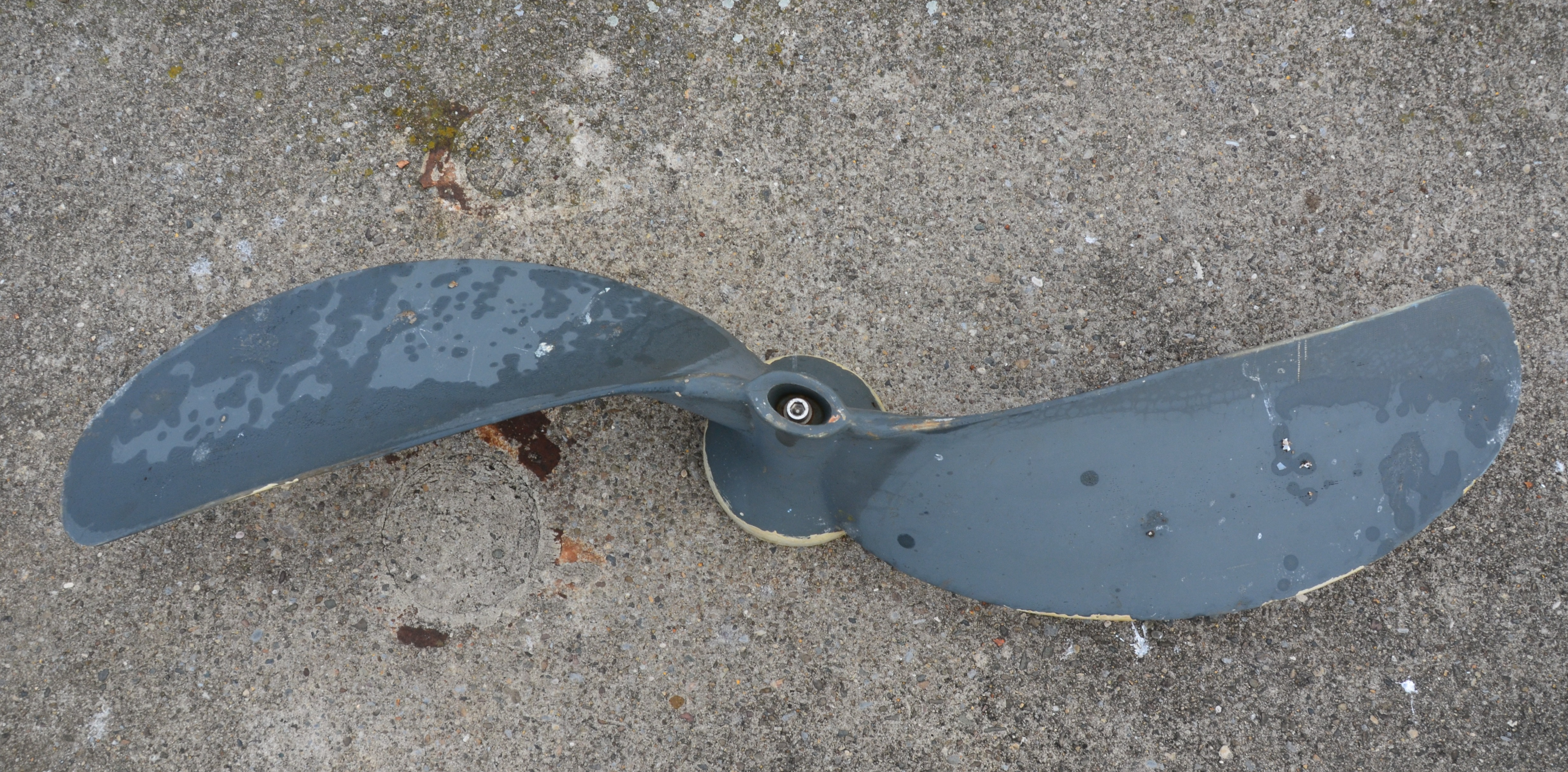 Screw of a propulsor, used in an aeration basin of a wastewater treatment plant (lying on concrete for maintenance)